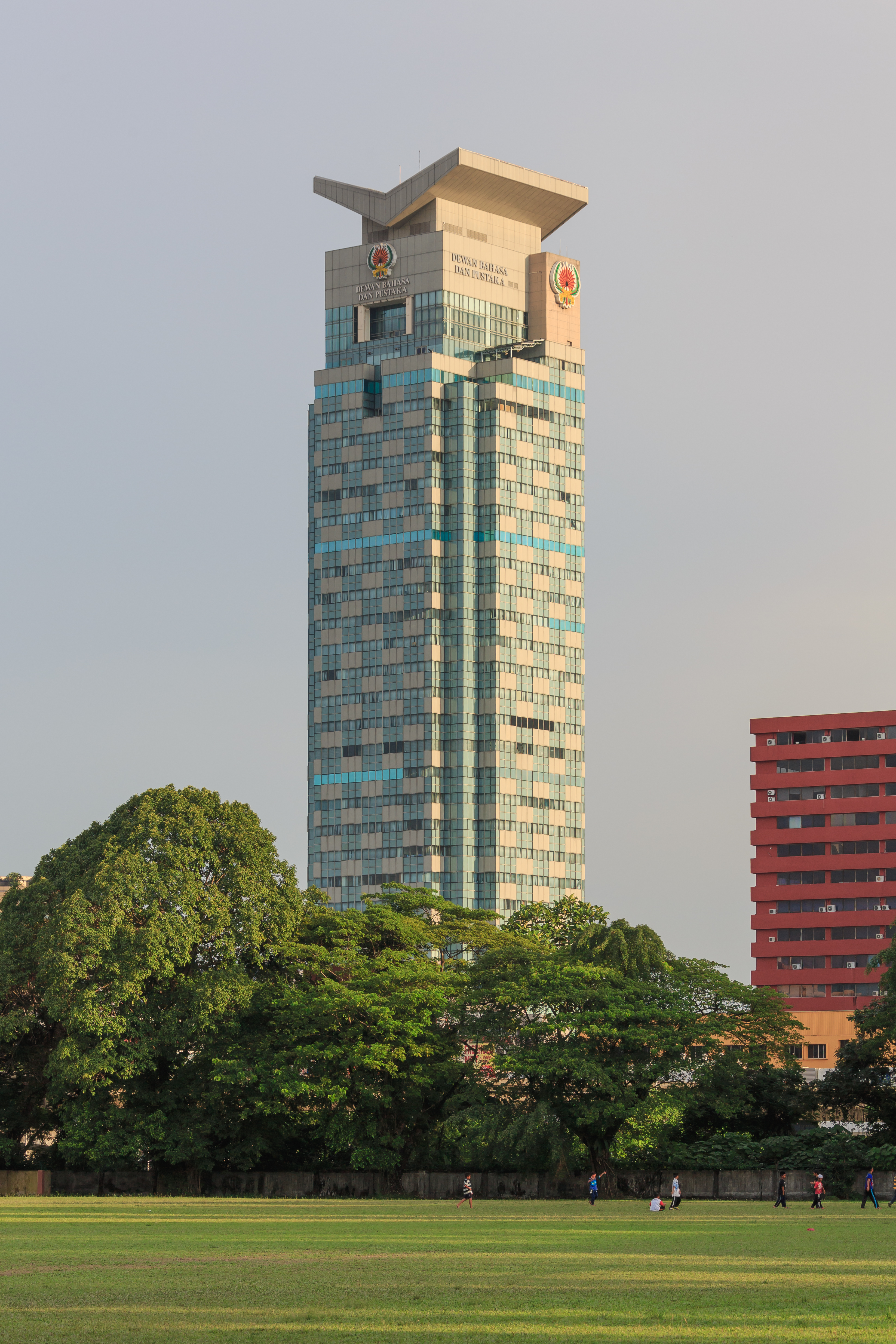 Kuala Lumpur, Malaysia: Headquarters of Dewan Bahasa Dan Pustaka